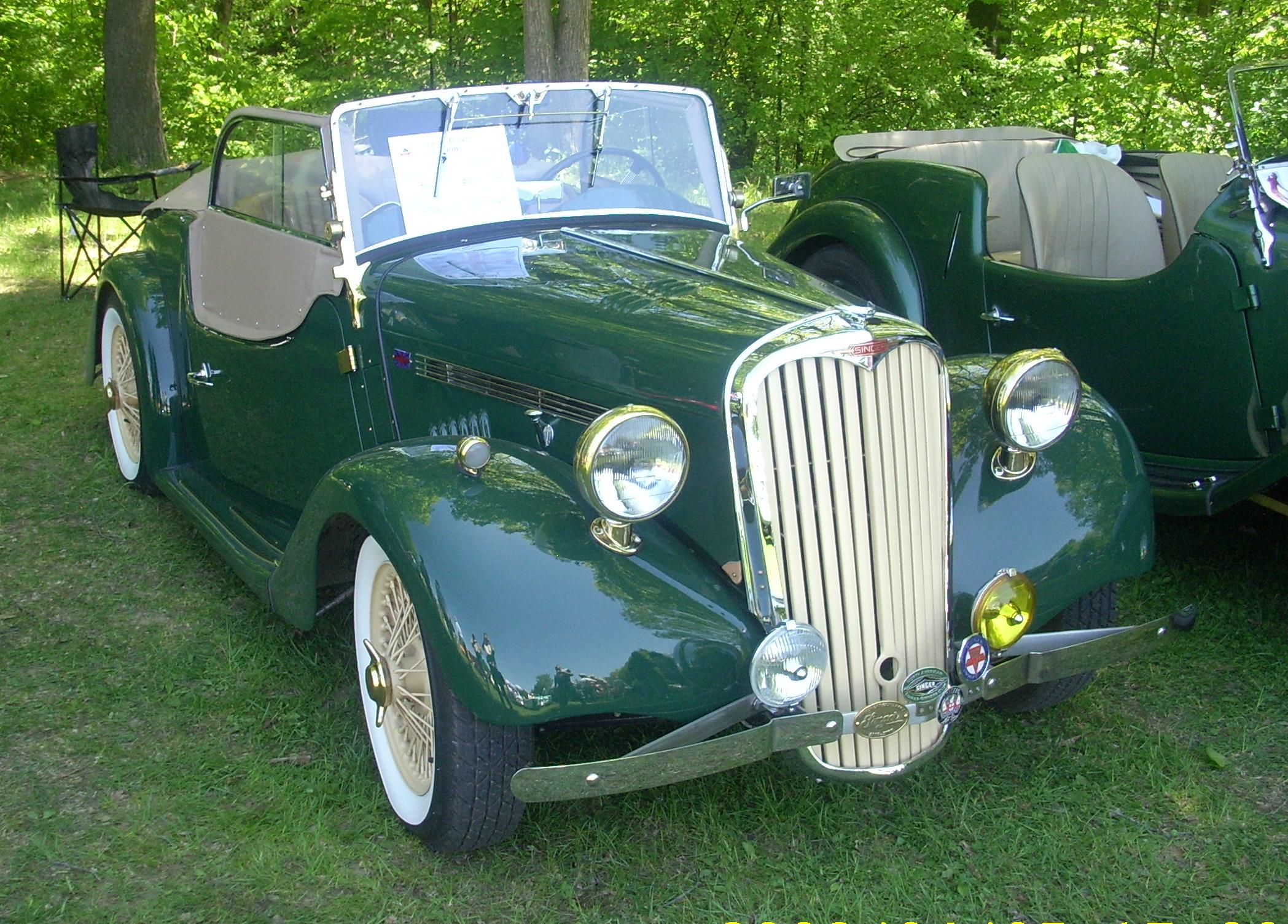 1948 Singer 9 photographed at the 2008 Hudson British Auto Show.